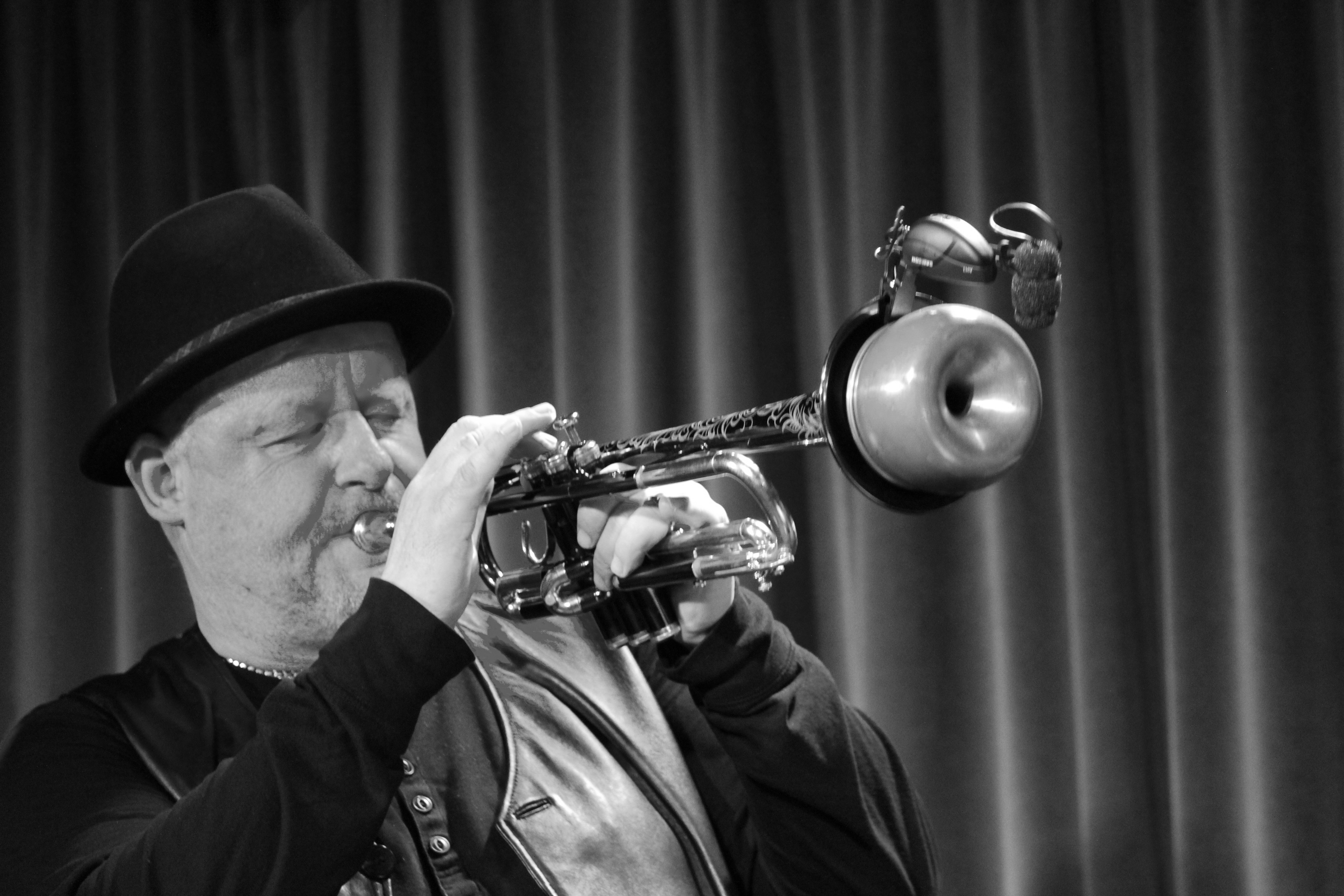 Gast Waltzing during a concert with his band Largo in Jazz Station, Saint-Josse Ten Noode.